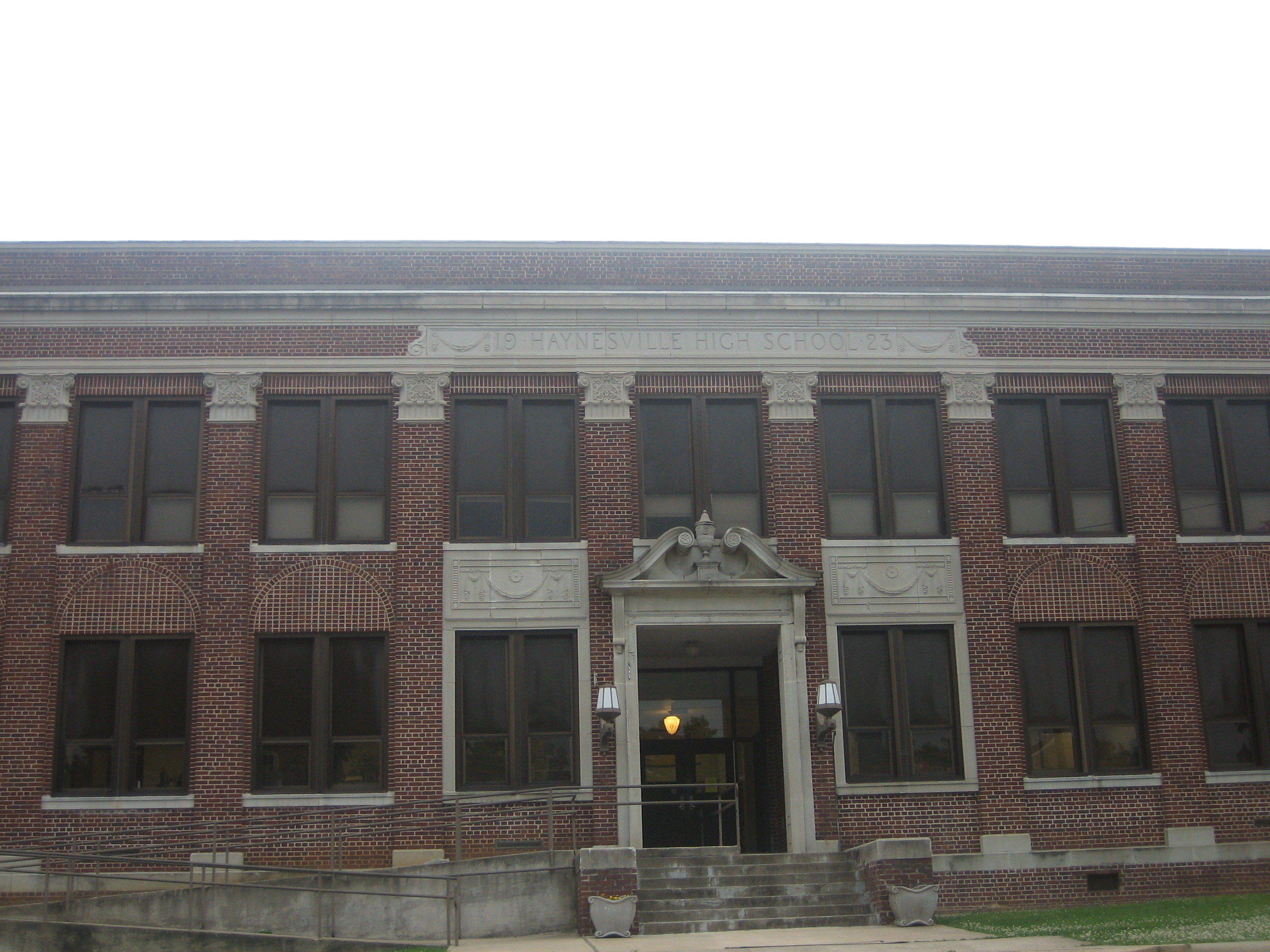 I took photo on May 26, 2009.Billy Hathorn (talk) 21:16, 29 May 2009 (UTC)